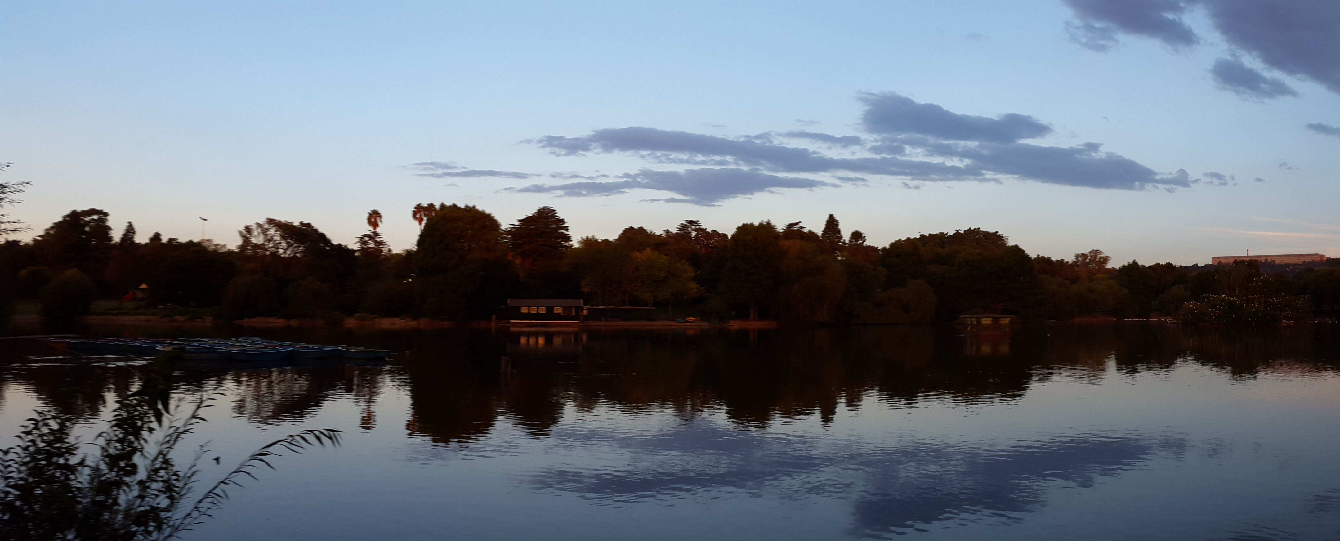 Zoo Lake, Johannesburg